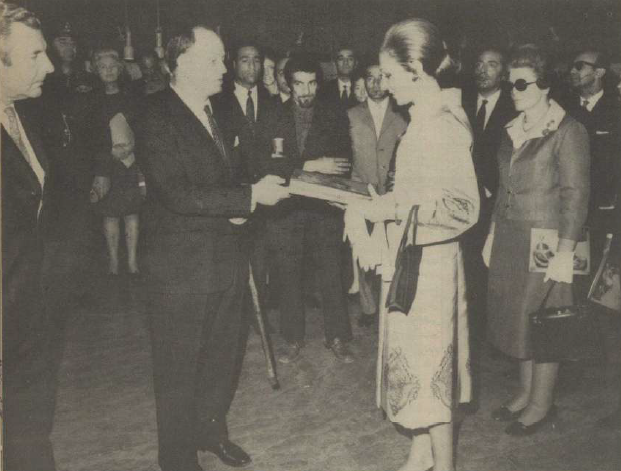 Shahbanu Farah, Opening ceremony of Henry Moore Gallery in Tehran